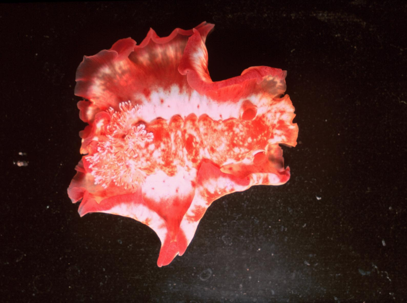 a swimming nudibranch in full swim